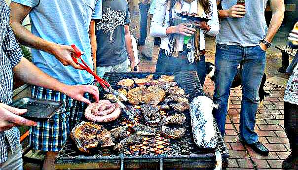 Traditional South African social gathering involving the cooking of venison, beef and mutton on open coals. This is an image of food from South Africa